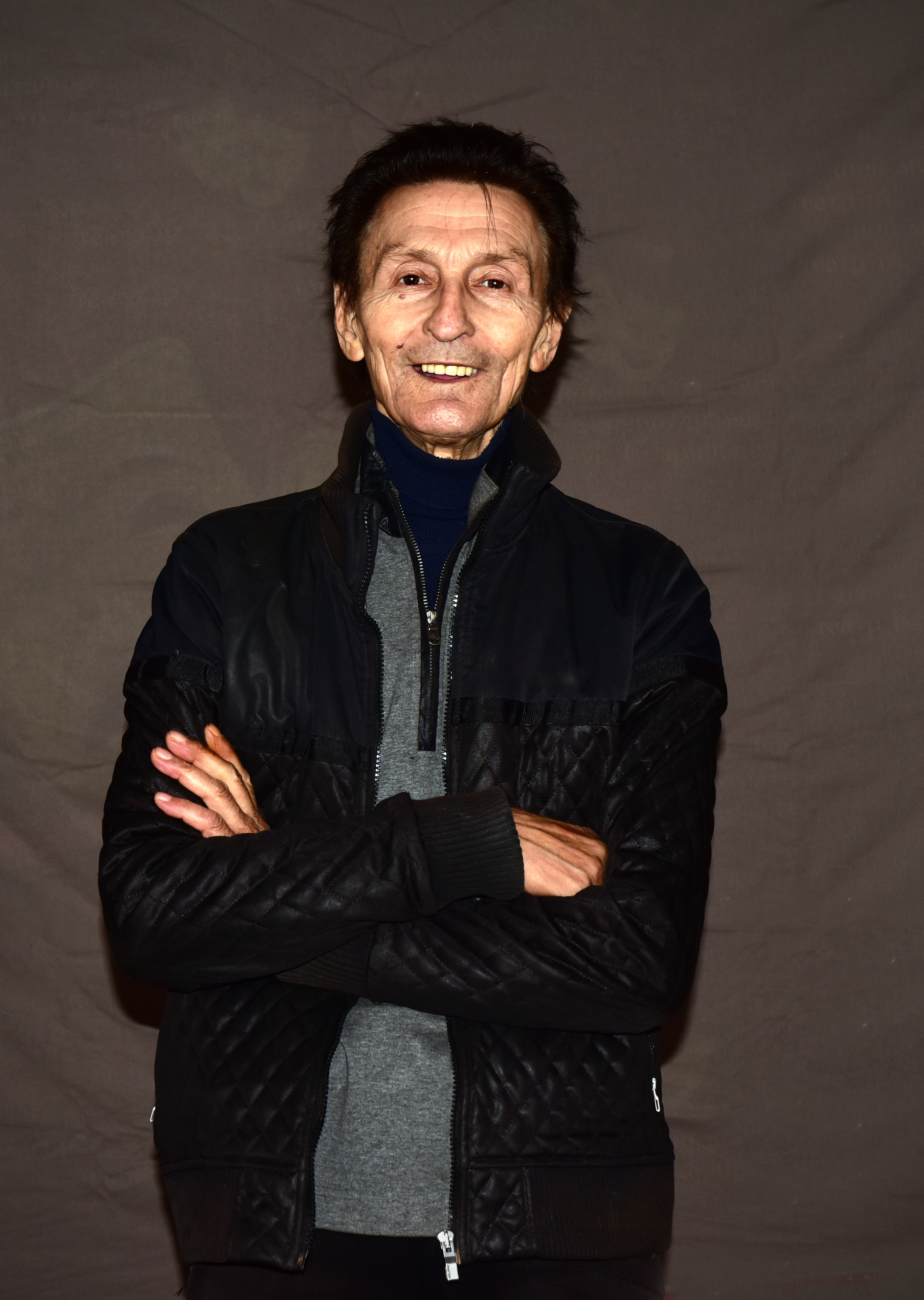 Shymansky Alexander Petrovich - Honored Artist of Ukraine, 1944 In 1969 he began work at the Khmelnytsky Regional Musical Drama Theater as a ballet actor, in 1986 he was promoted to the position of choreographer. Laureate of the Bakery Khmelnytsky Prize